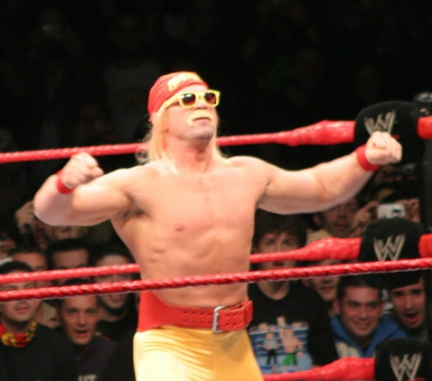 A cropped version of Andrea90's image, File:Haas Hogan.jpg, showing professional wrestler parodying in Milan, Italy on November 6, 2008